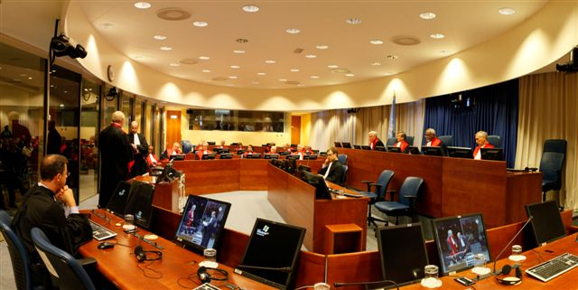 Courtroom I during a swearing-in ceremony of Judges.